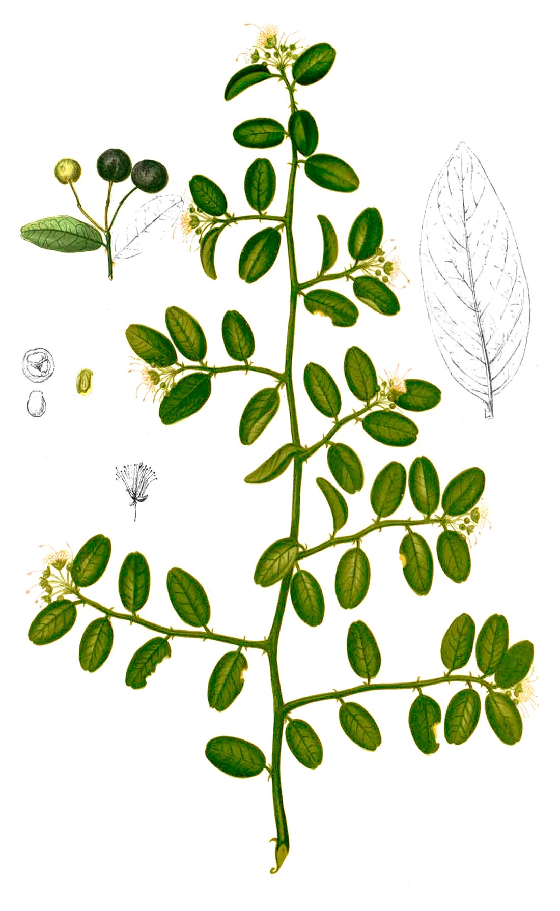 Plate from book Capparis sepiaria